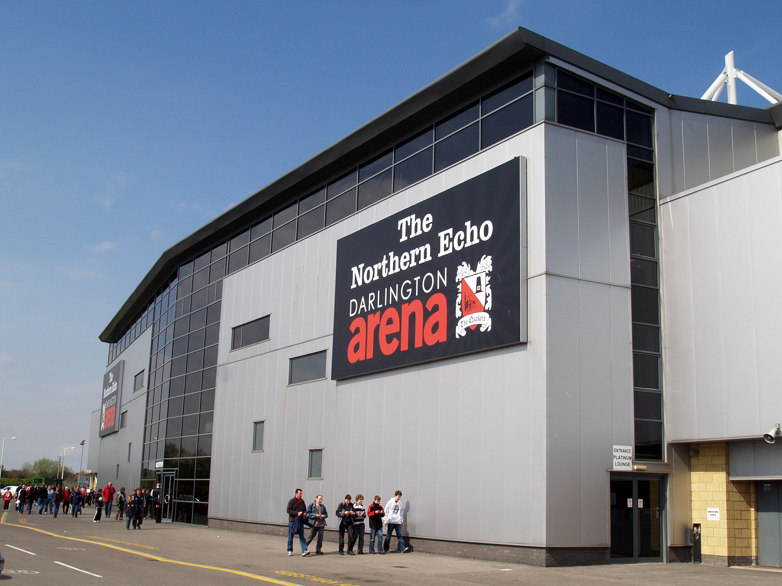 The Old exterior of the Darlington Arena. Taken on the 13th of April 2009.